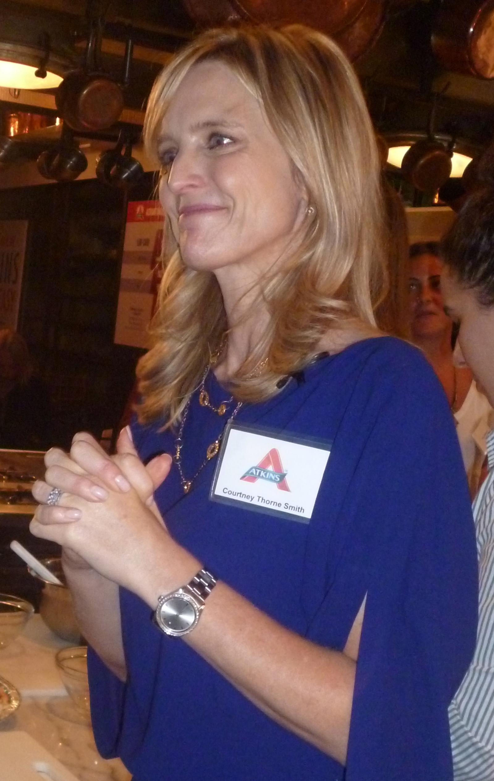 Courtney Thorne-Smith in 2013.